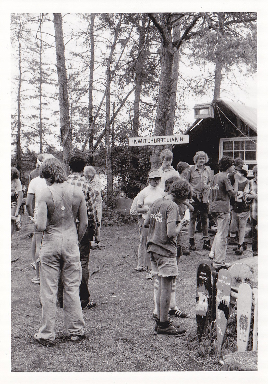 Campers from Camp Nebagamon and other camps visiting the home of Dorothy Molter in the Boundary Water Canoe Area, photo by James Keim